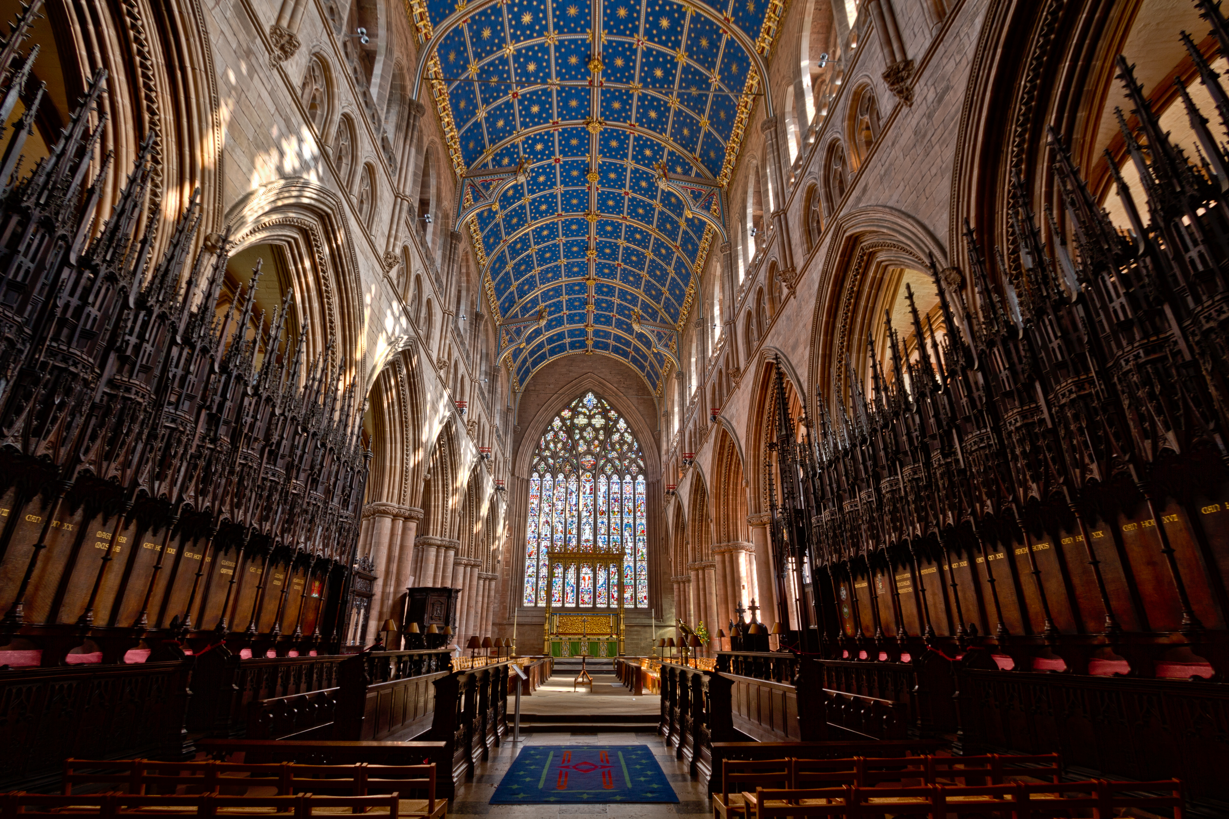 Inside the choir of Carlisle Cathedral, Carlisle, Cumbria, England, UK, looking east to the high altar. Permission was granted for photography and use of tripod.